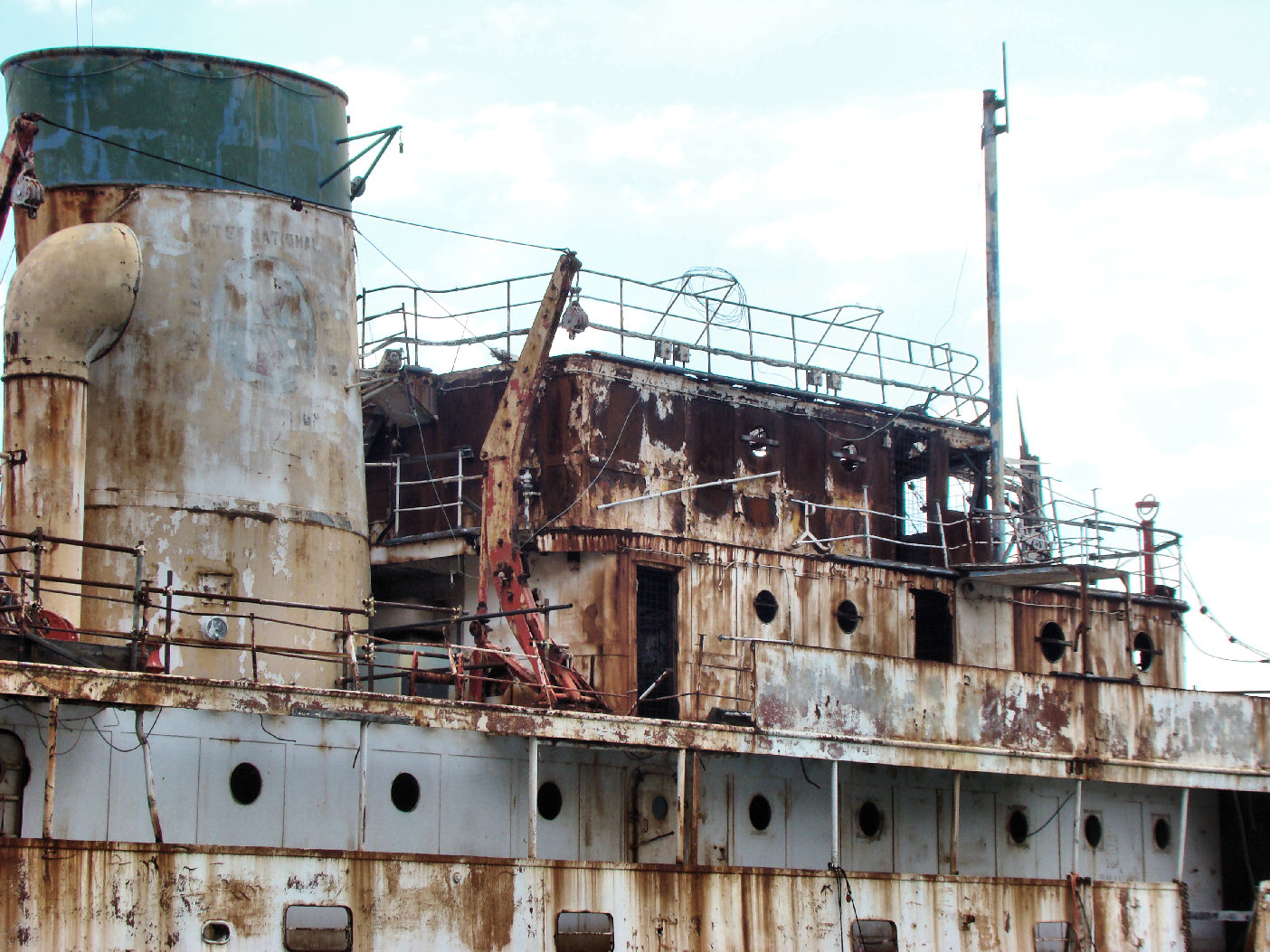 La Spezia, detail of Williamsburg (2008).